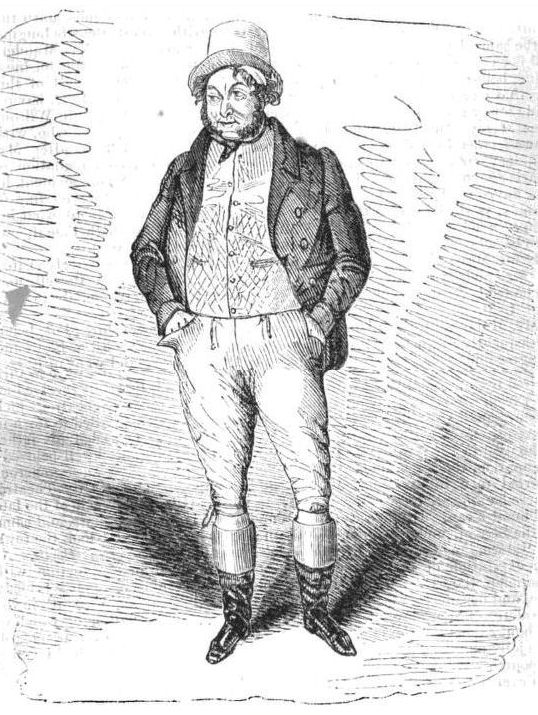 Print of the comedian Thomas Manders (1797-1859) as Sam Slap in The Rake's Progress from 1838